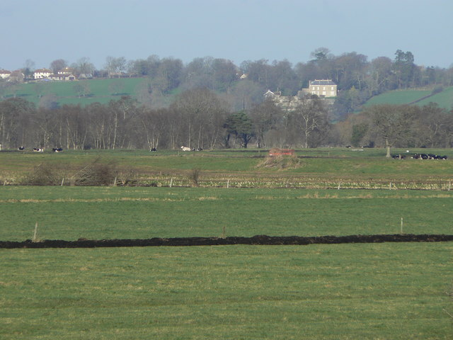 Fields at Westhay Across the foreground, the black line of material dredged up during ditching indicates the presence of peat in this area. The landscape is completely flat for two or three miles until the hill on which stands the prominent white house known as Castle Farm at Heath House. (The hill is locally known as the Isle of Wedmore, betraying a past when the Levels were all water.) Invisible in this picture, the River Brue runs between embankments, approximately where the red farm vehicle and cows are. It becomes very visible in times of flood.